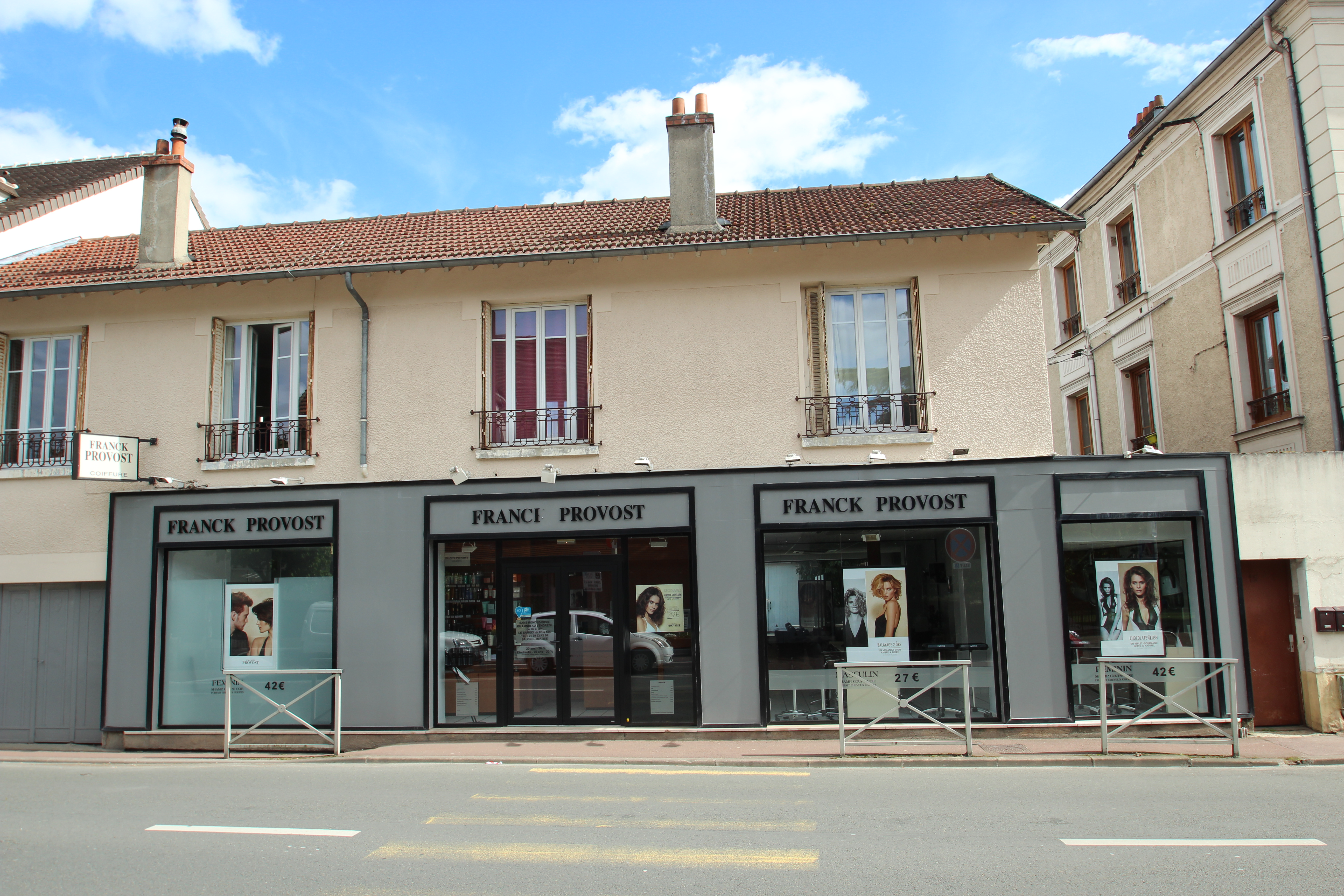 Buildings on République street in Saint Rémy lès Chevreuse, France.